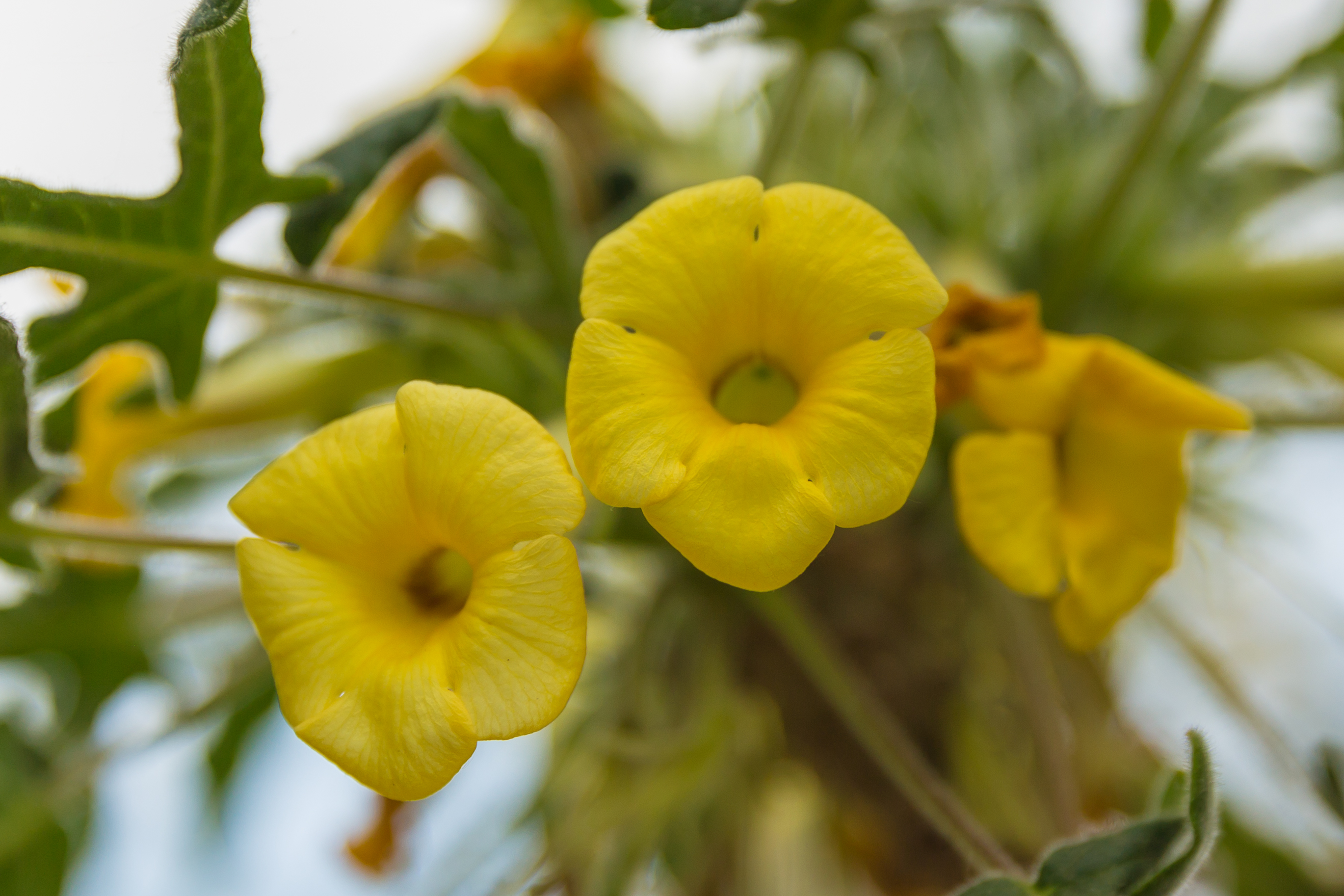 Uncarina roeoesliana to the Jardin botanique de Lyon, France.